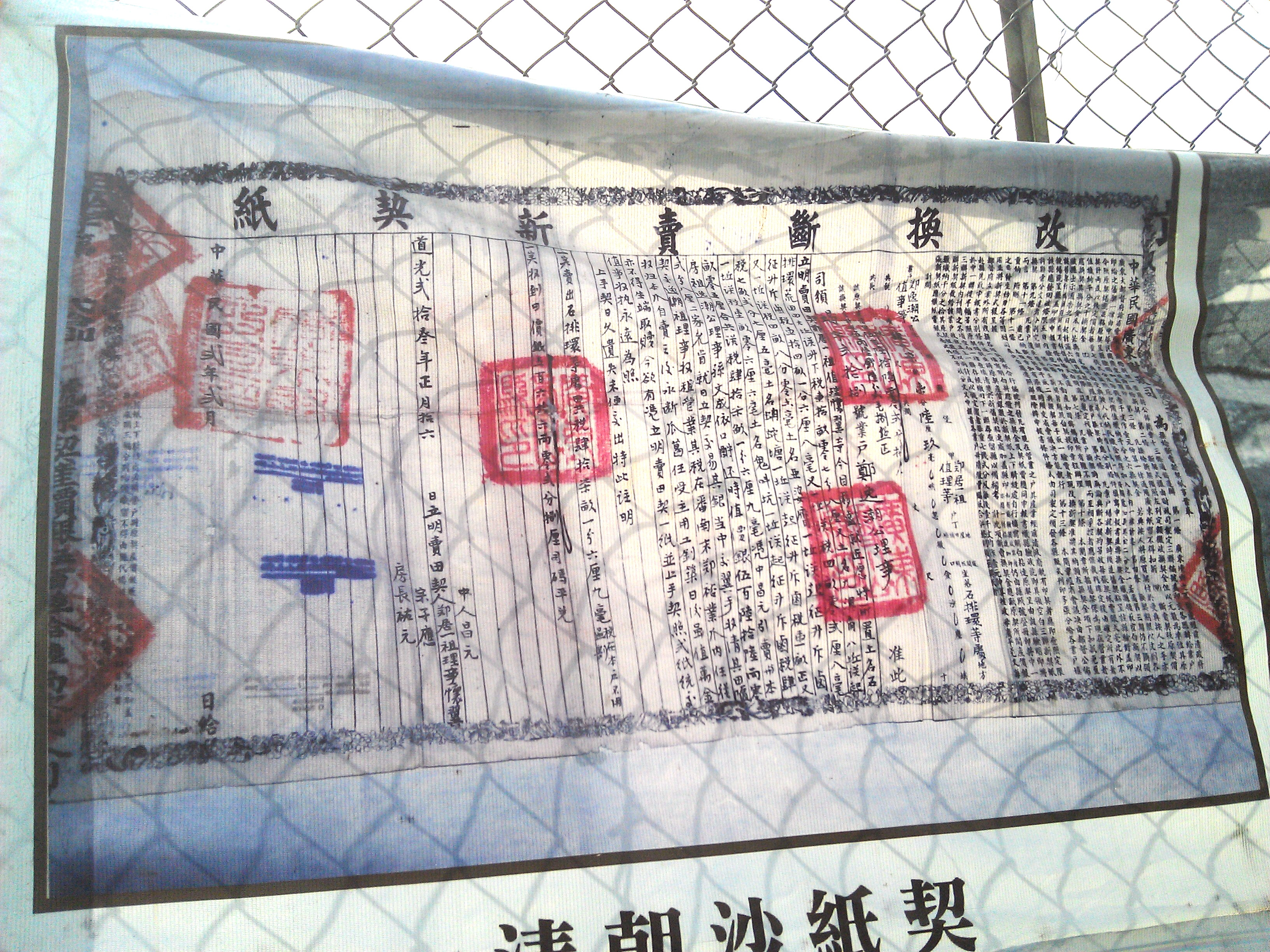 A land contract written on a yarn paper in Macau Ka Ho Village in 1843 中文（香港）: 1843年澳門九澳村的一張紗紙契